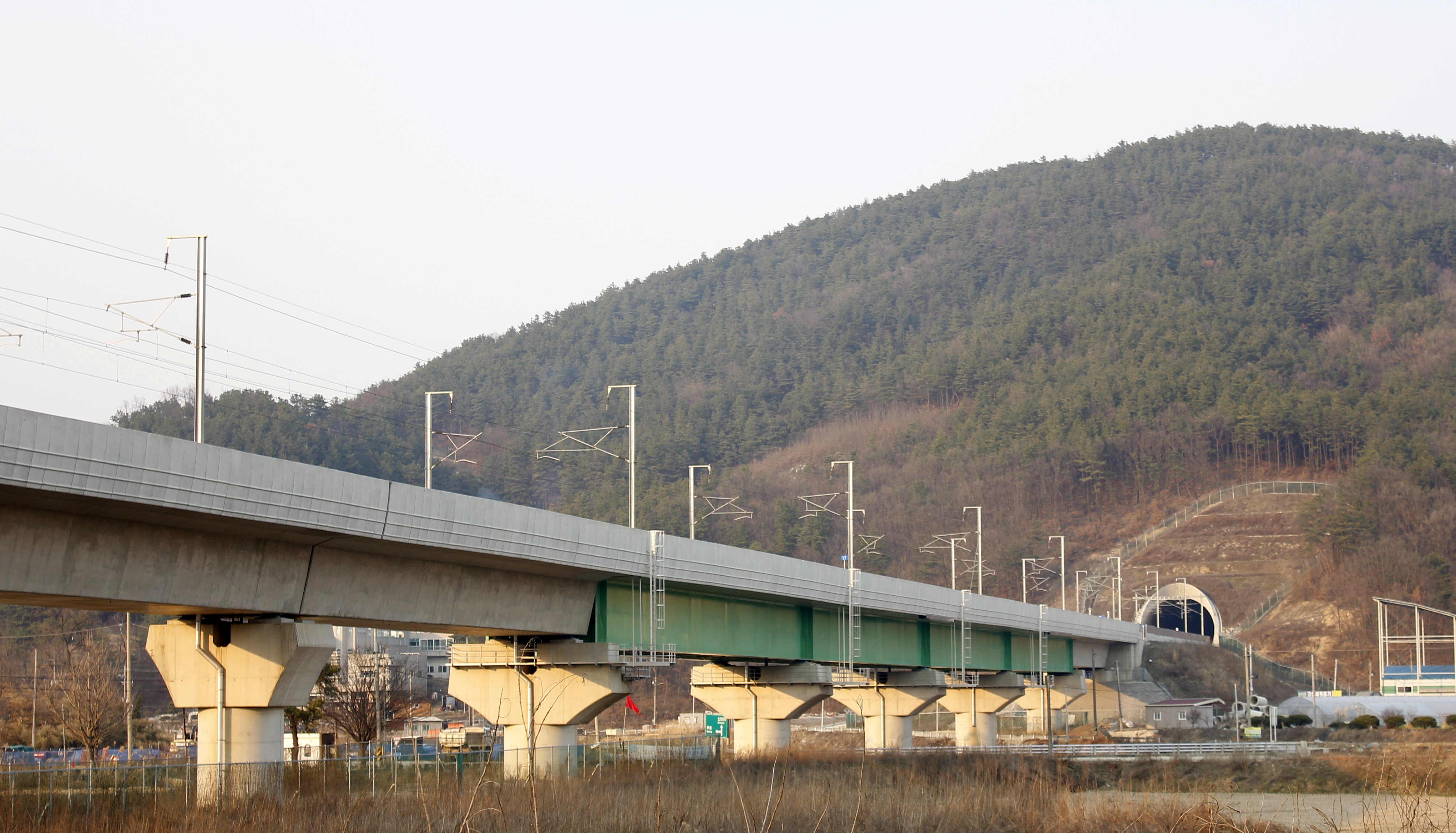 Honam high-speed railway viaduct at Sejong City